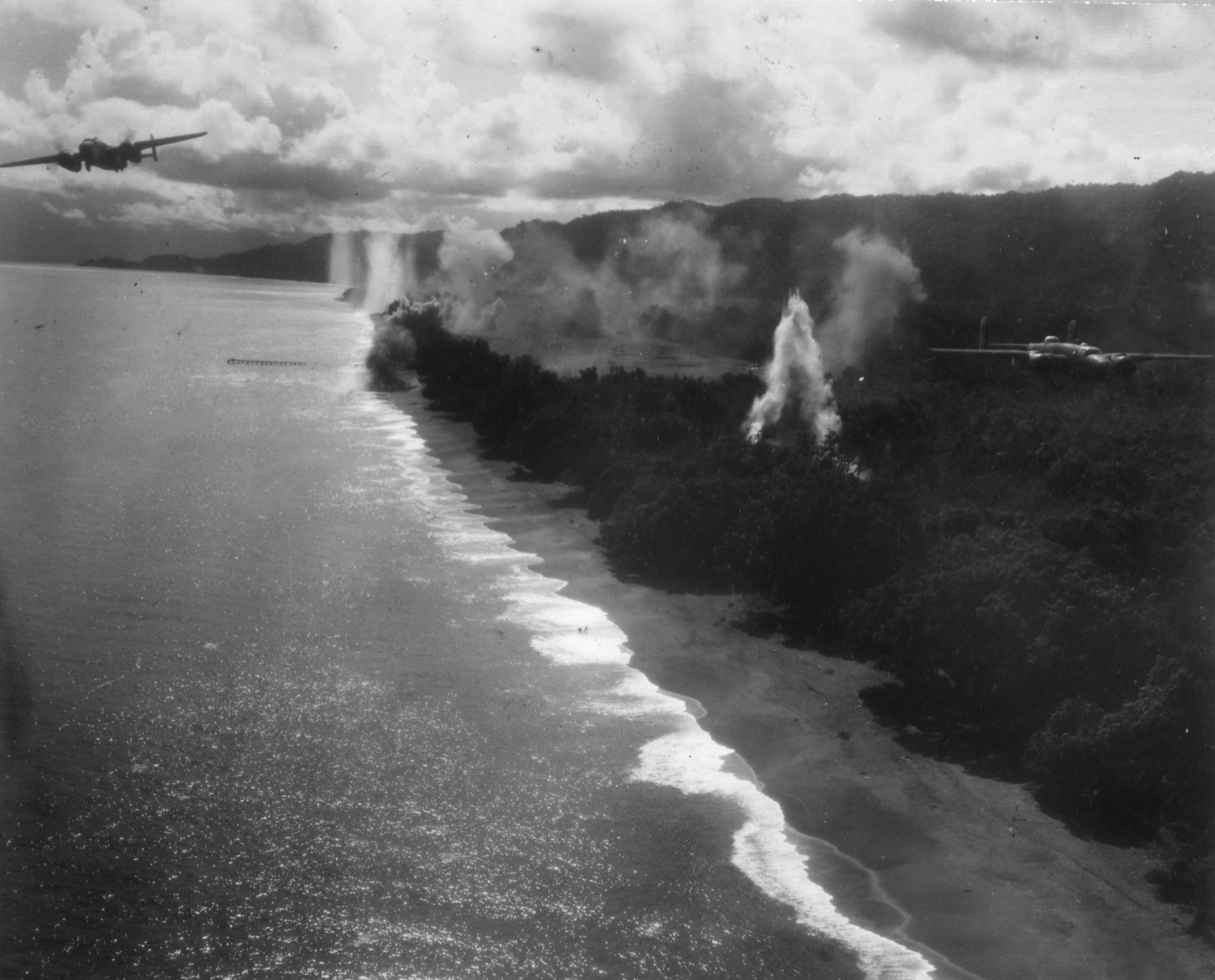 B-25 MEDIUM BOMBERS leaving installations aflame in the Wewak area.